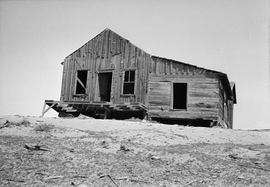 Hudson's Bay Company post at White Bluffs, Washington - dated 1937.